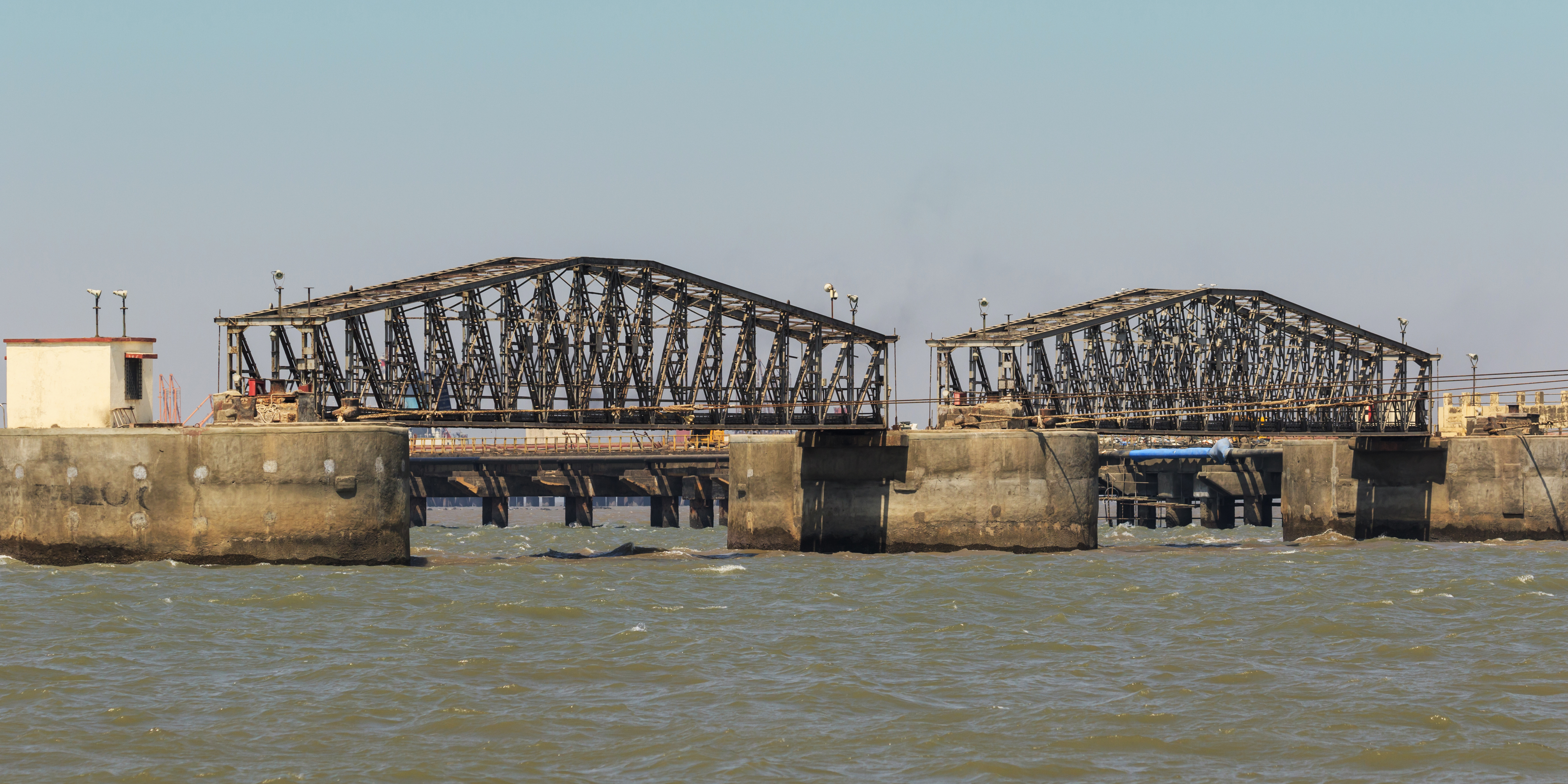 Tanker docks at Jawahar Dweep / Butcher Island. Taken from Mumbai-Elephanta ferry. Maharashtra, India.